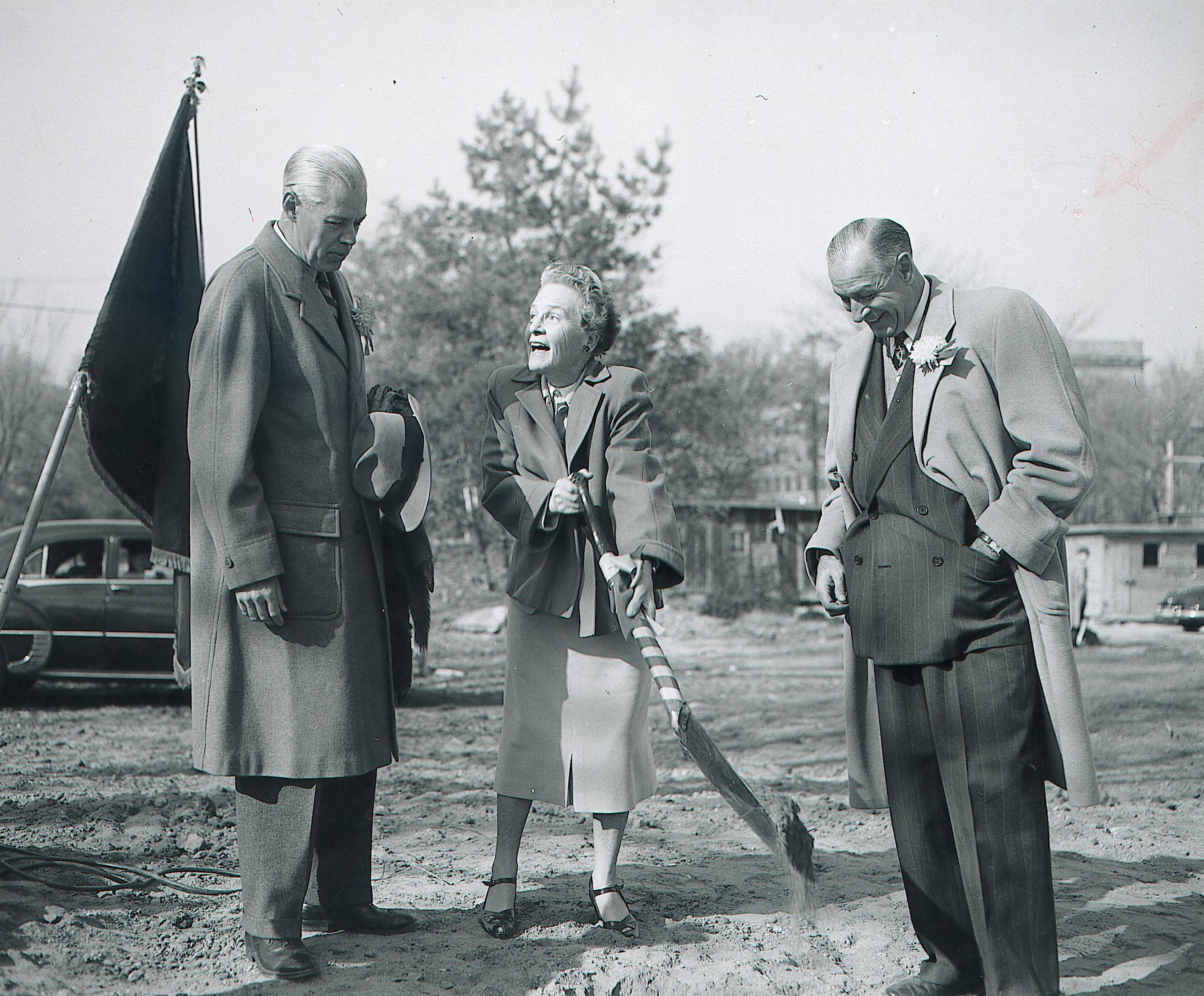 Dedicated April 17, 1954 and named after Dr. Margaret Bell, chairman of the Program of Physical Education for Women. Left to right: President Harlan Hatcher; Dr. Margaret Bell, director of Women's Physical Ed. program; and H.O. (Fritz) Crisler